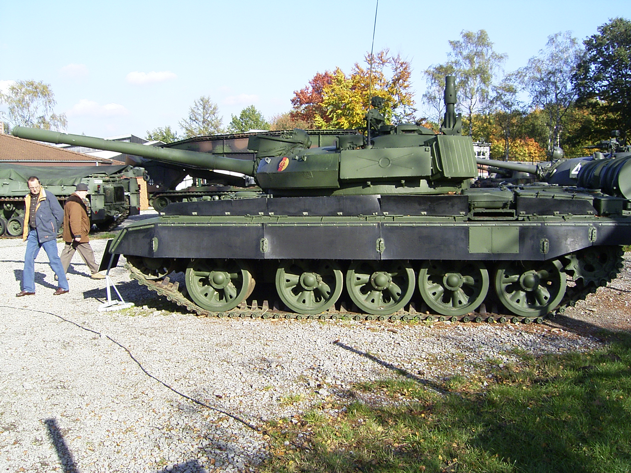 T-55AM2B previously in service with the NVA and now on display in tank museum in Munster.